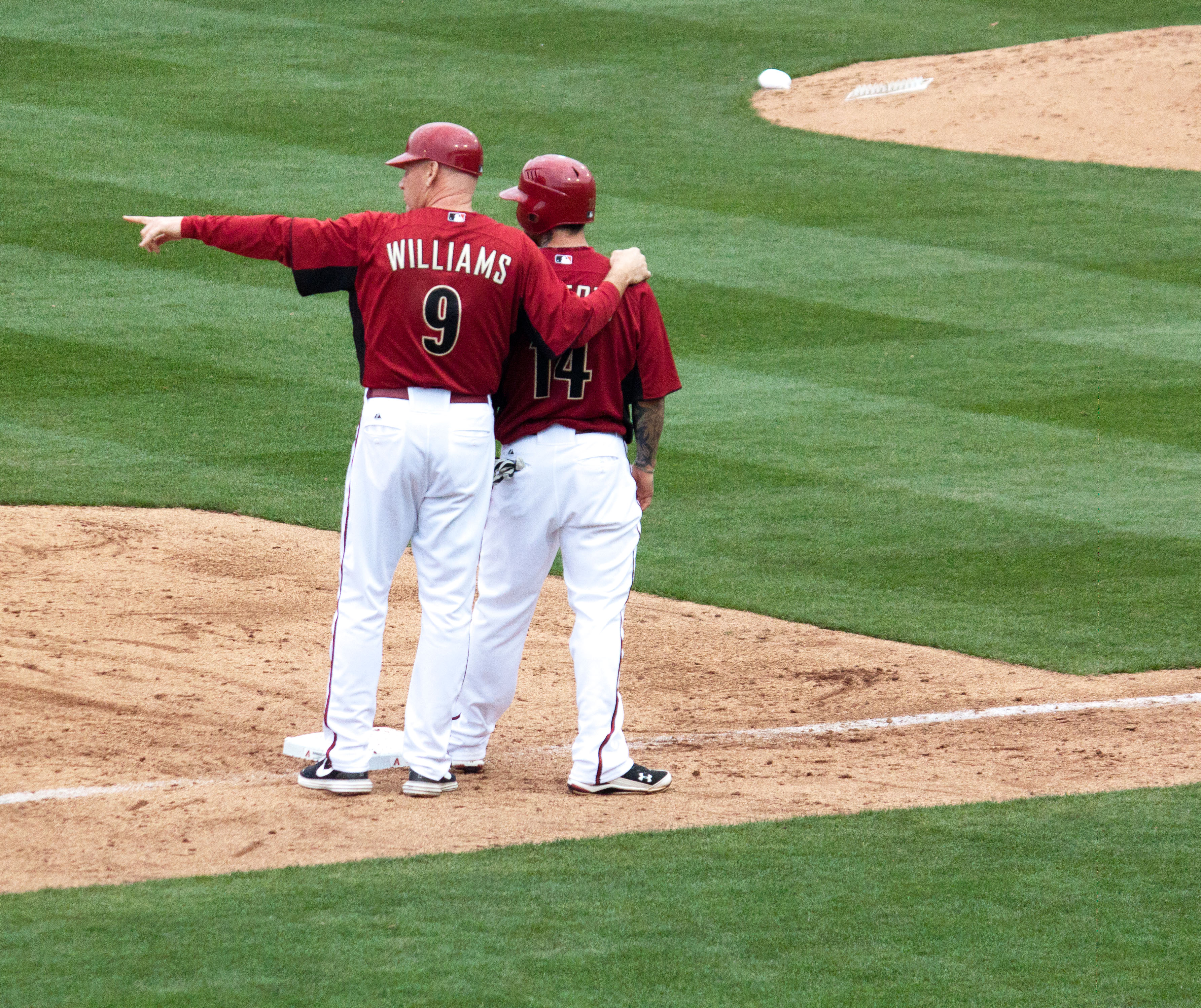 Some counsel from Matt Williams